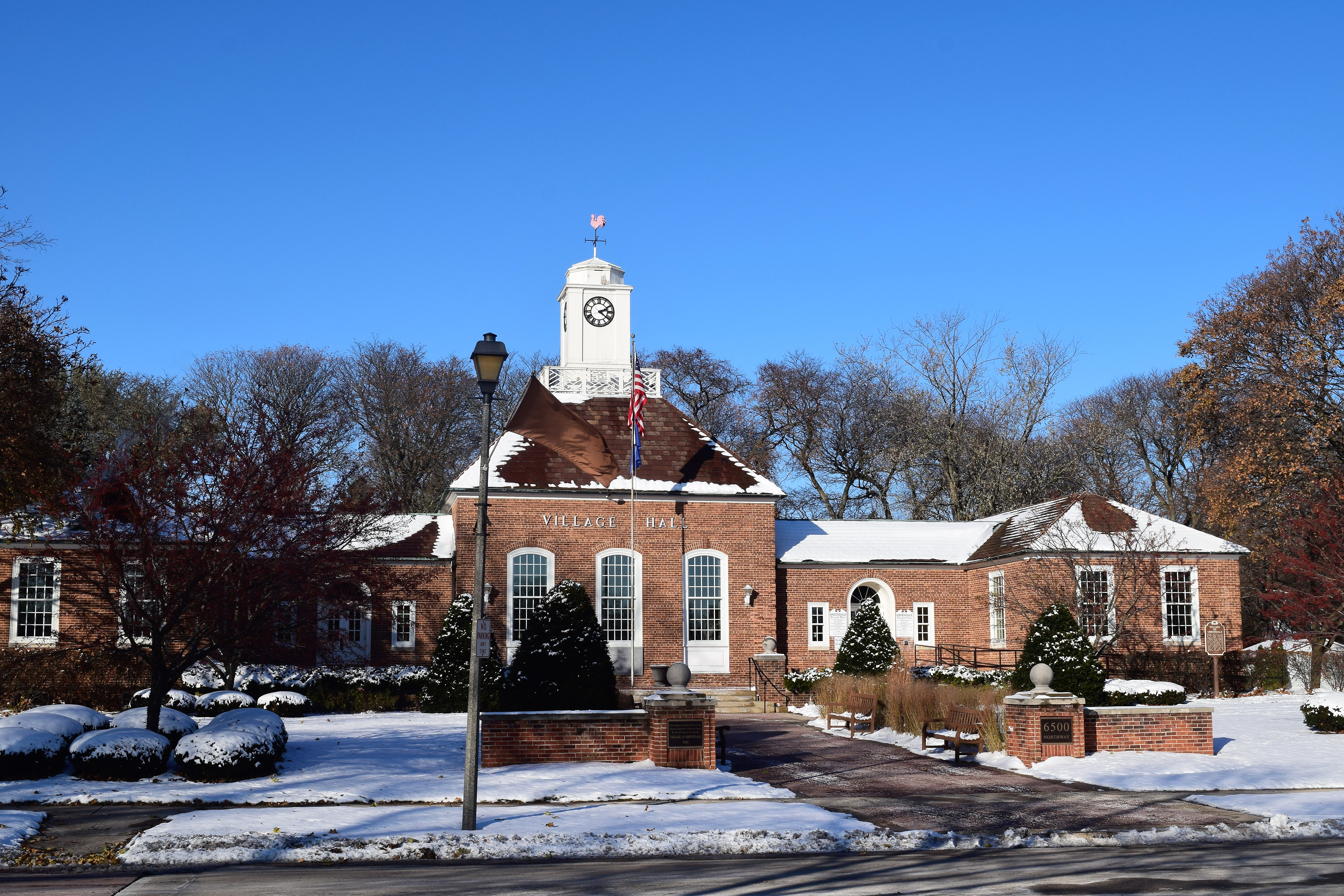 The village hall in the village of Greendale, Wisconsin. The hall is part of the Greendale Historic District.